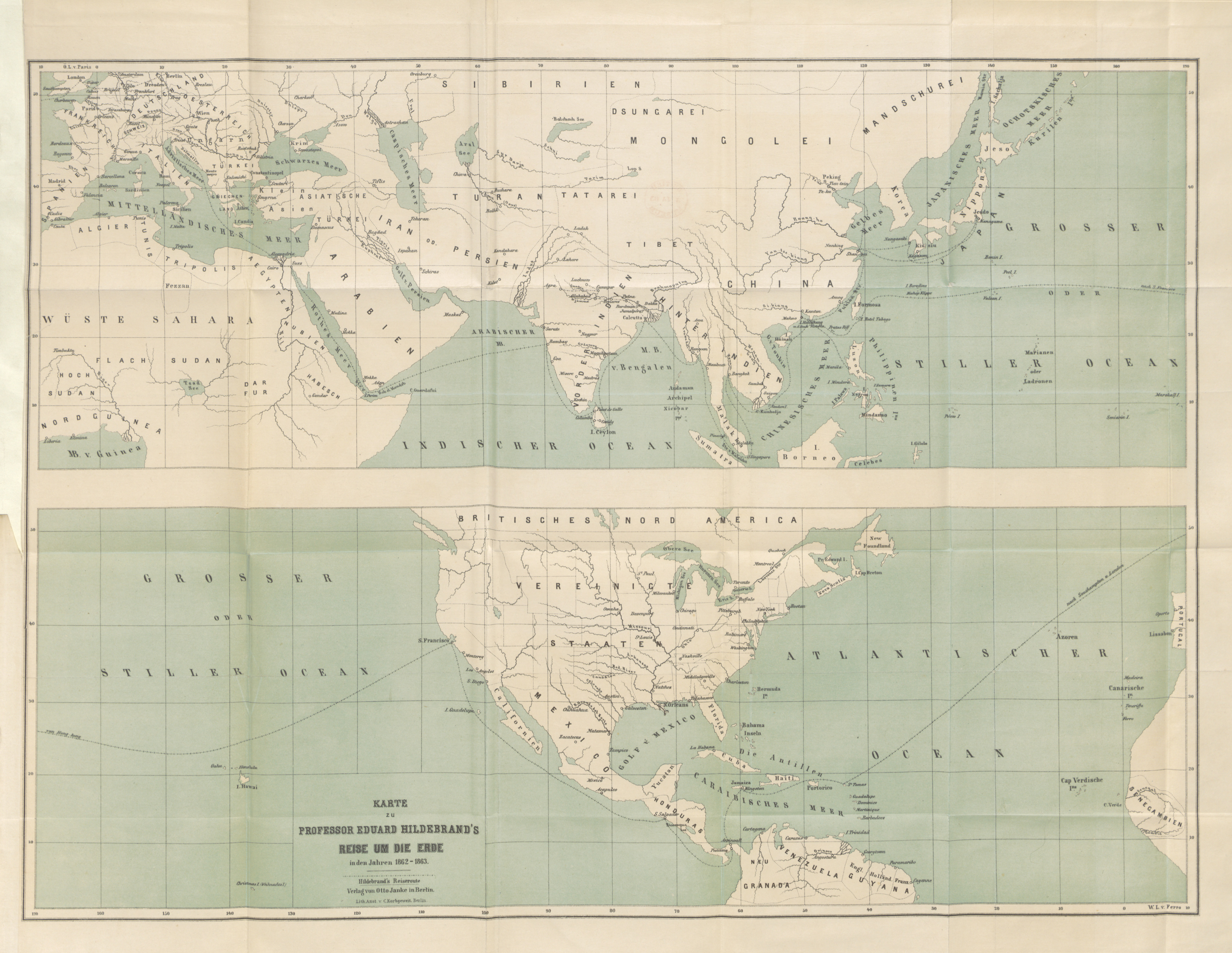 View this map on the BL Georeferencer service. Image taken from: Title: "Professor E. H.'s Reise und die Erde. Nach seinen Tagebüchern und mündlichen Berichten erzählt von E. Kossak. Siebente Auflage, etc" Author: HILDEBRANDT, Eduard. Contributor: KOSSAK, Ludwig Ernst. Shelfmark: "British Library HMNTS 010026.h.17." Page: 710 Place of Publishing: Berlin Date of Publishing: 1882 Issuance: monographic Identifier: 001682030 Explore: Find this item in the British Library catalogue, 'Explore'. Download the PDF for this book (volume: 0) Image found on book scan 710 (NB not necessarily a page number) Download the OCR-derived text for this volume: (plain text) or (json) Click here to see all the illustrations in this book and click here to browse other illustrations published in books in the same year. Order a higher quality version from here.